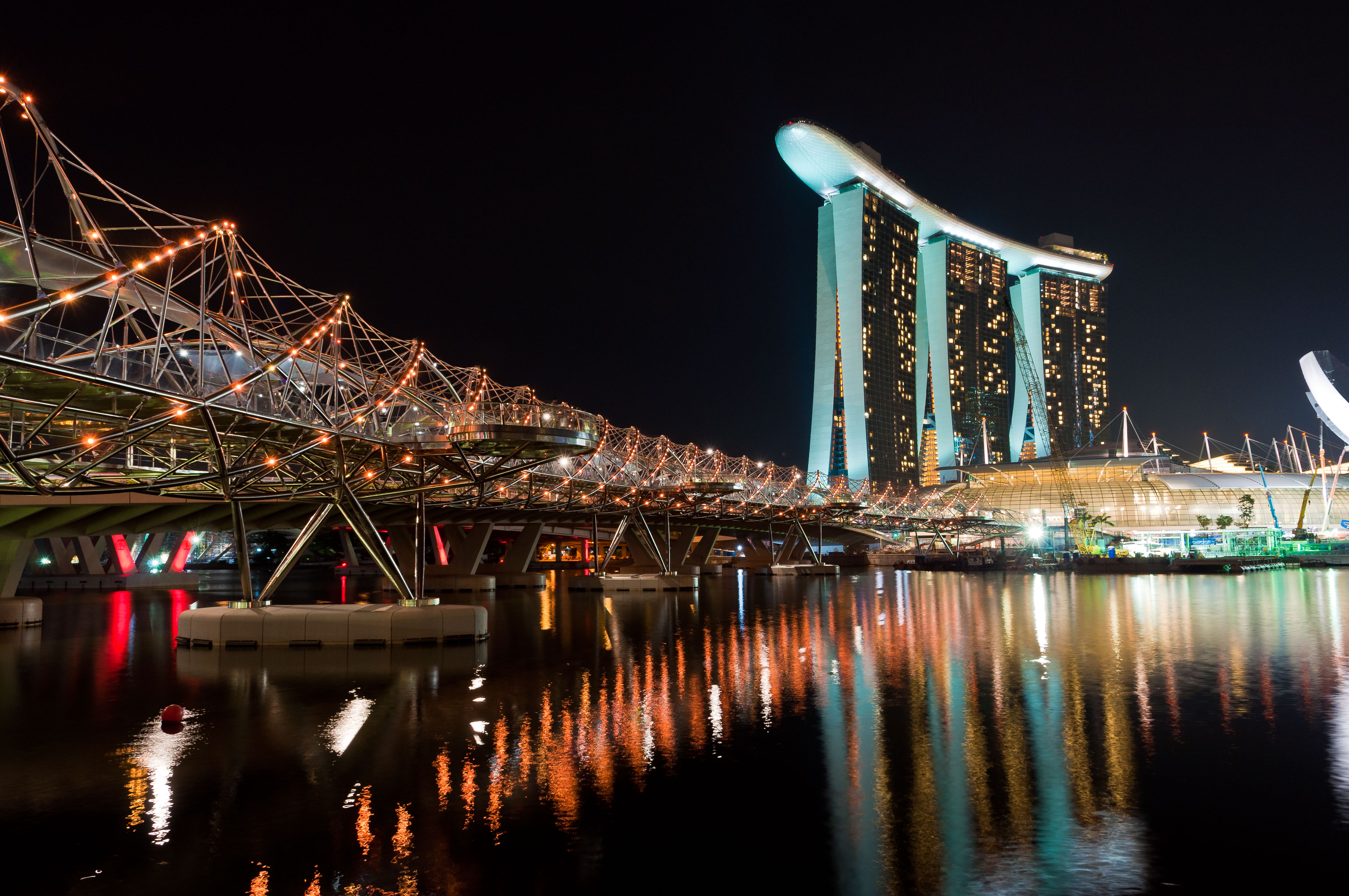 Double Helix bridge to Marina Bay Sands